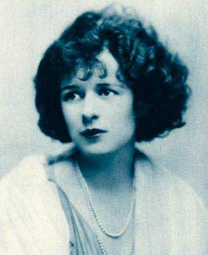 Publicity photo of Anita Stewart from Stars of the Photoplay. Anita Stewart was born in Brooklyn in 1897. She attended Public School No. 89 and was graduated as the youngest member in her class. From there she went to Erasmus High School. Her screen career began with Viragraph, the first six months filling unimportant roles, learning the business from the bottom up. Her first important role was the lead in "The Wood Violet." She is now with Cosmopolitan and appeared in their production "The Great White Way." She has also appeared in vaudeville. She has brown hair and eyes. Height five feet, five inches. Weight, 125 pounds.